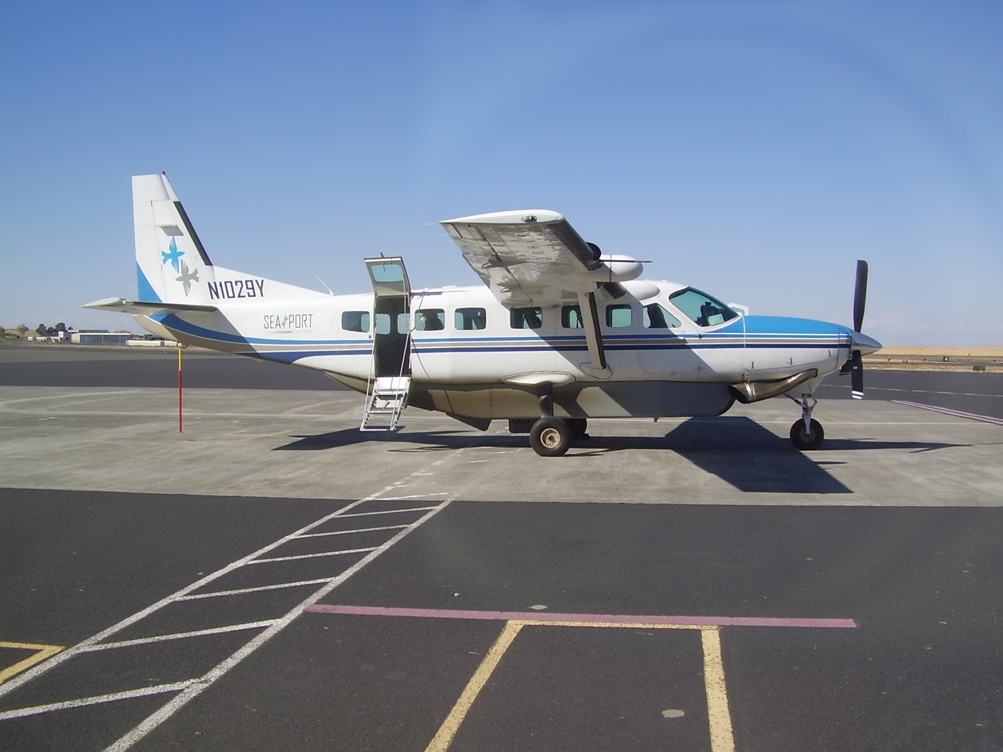 SeaPort Airlines Cessna 208 at Eastern Oregon Regional Airport